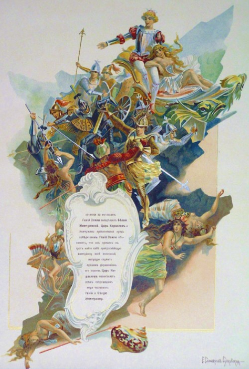 1=Page from the theatre program for a gala performance held at the Moscow Imperial Bolshoi Theatre in honor of the coronation of Tsar Nicholas II and Empress Alexandra Fyodorovna. 29 May [O.S. 17 May] 1896.